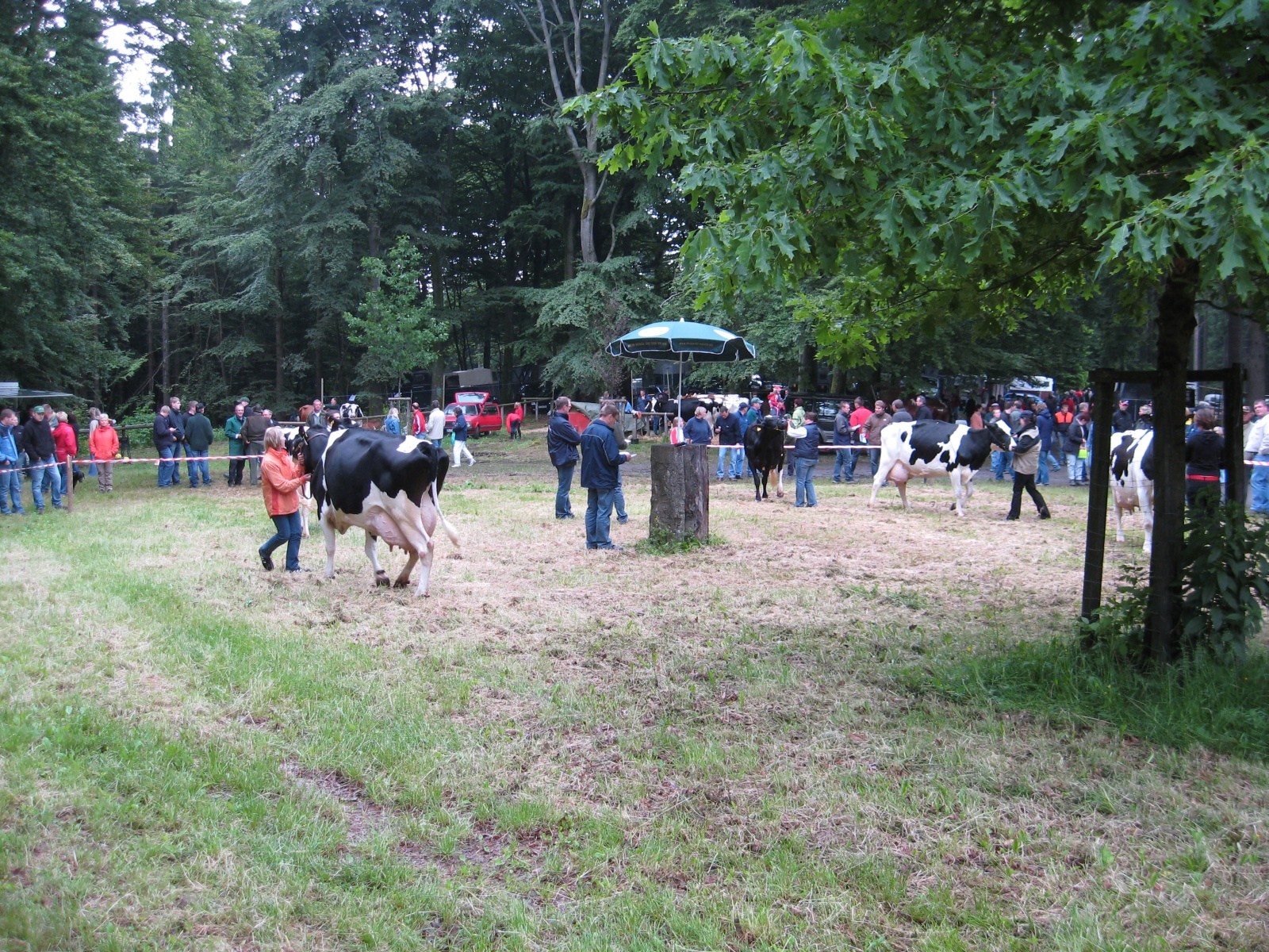 Livestock demonstration at the „Stünzelfest“ near Bad Berleburg in June 2008.